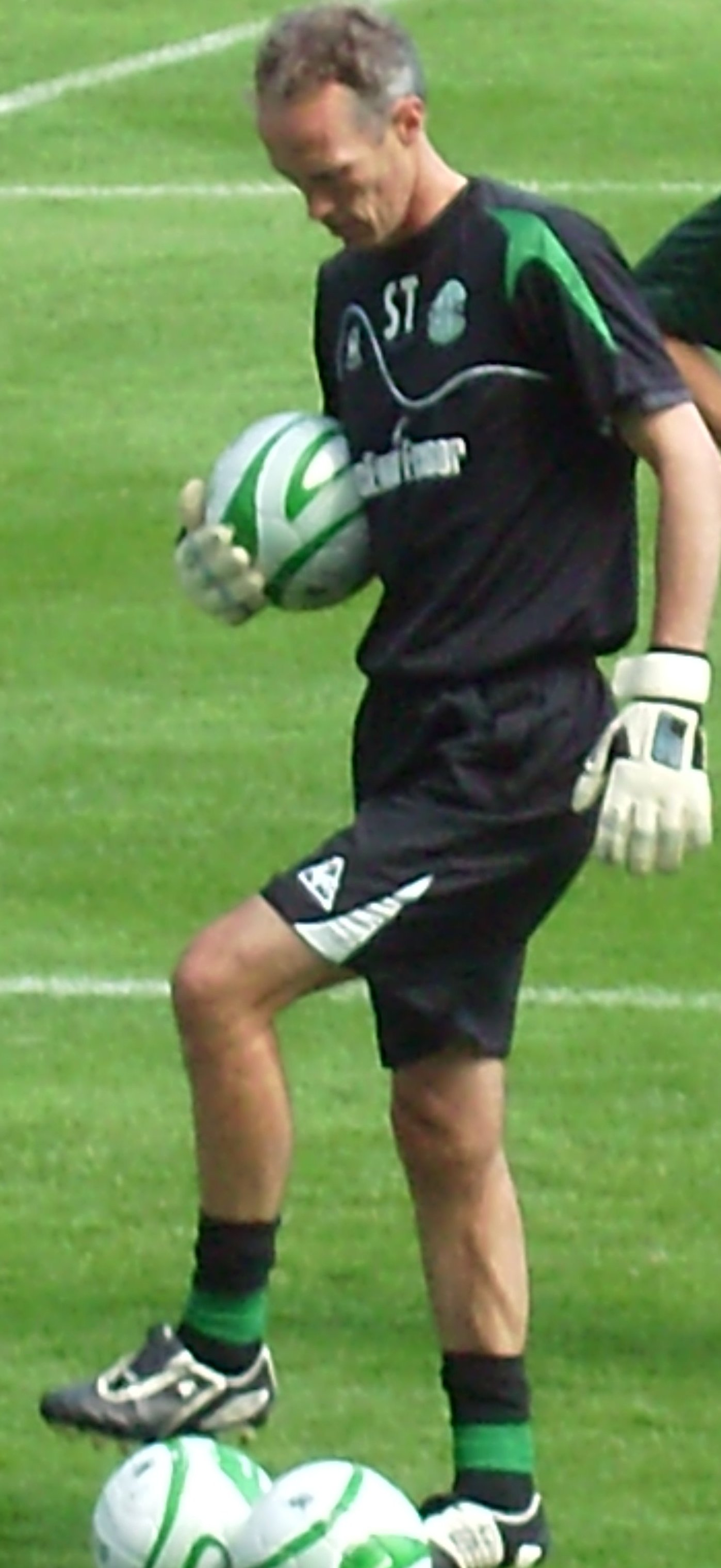 Hibernian F.C. goalkeeping coach Scott Thomson. Picture taken at a club open day at Easter Road on 2 August 2009.